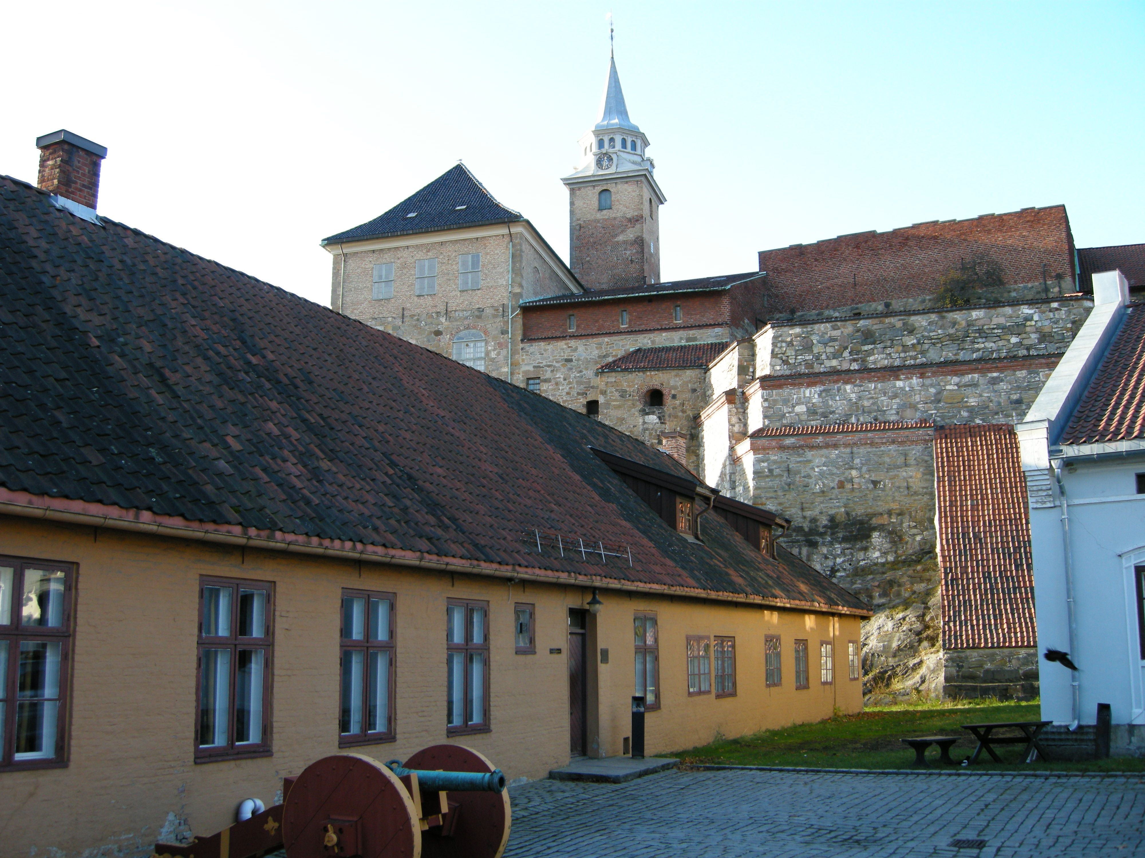 Akershus slott og festning (castle) Oslo, Norway